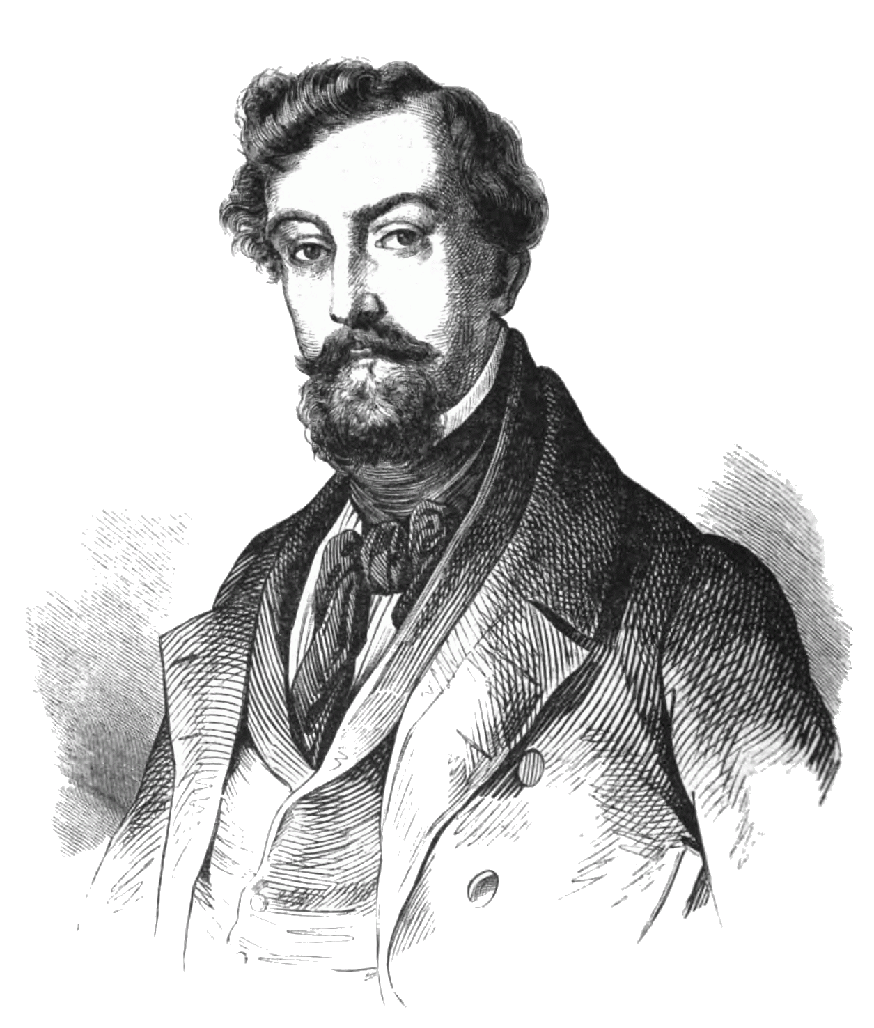 Karl Kirchgeßner (1807-1858), German jurist and politician